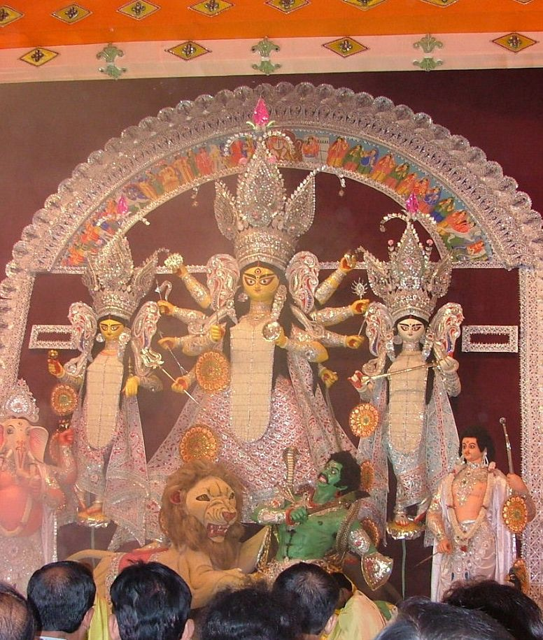 Traditional Durga (details in external link Durga Puja, the biggest festival)